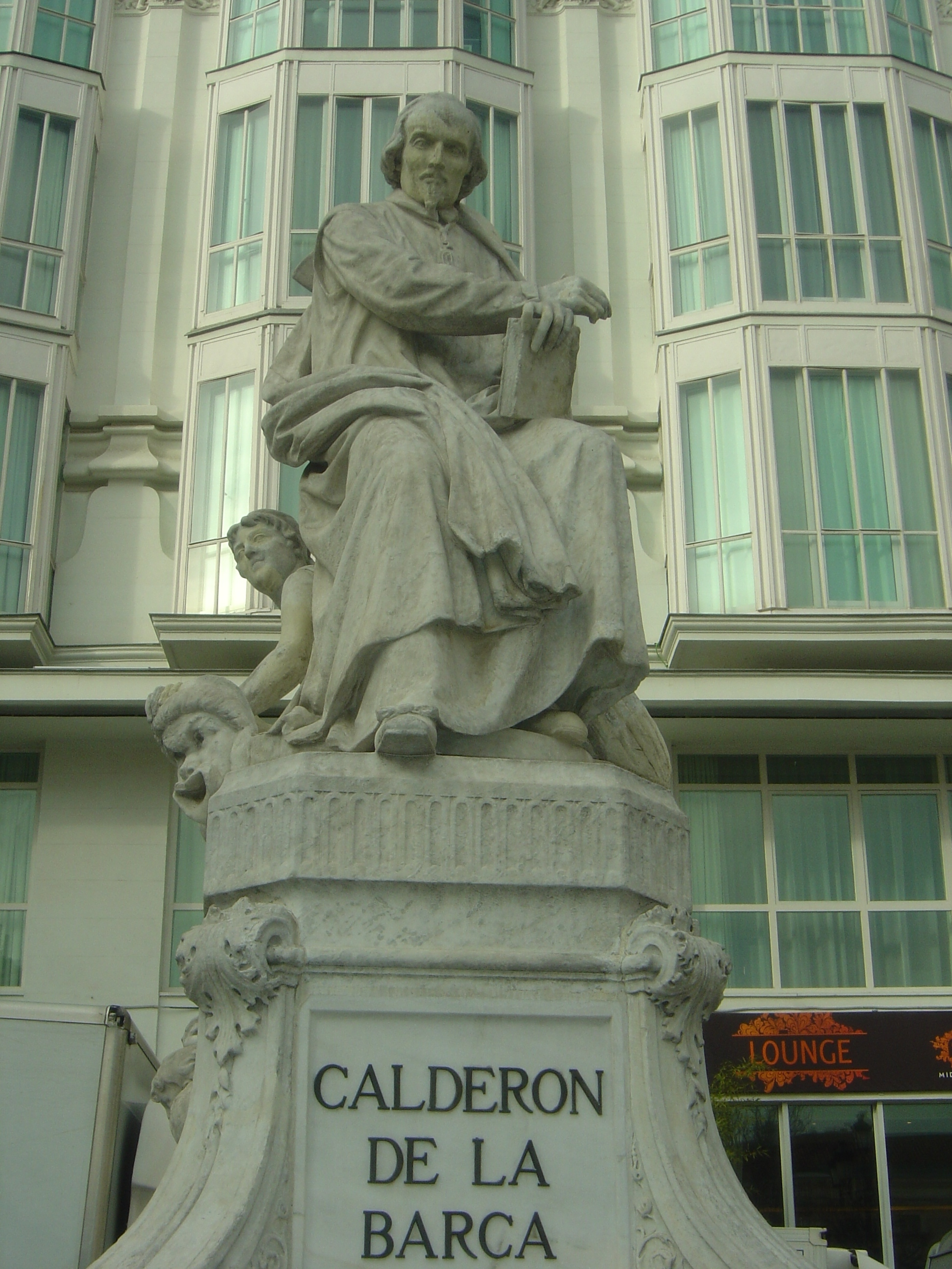 Monument to Calderon in Madrid